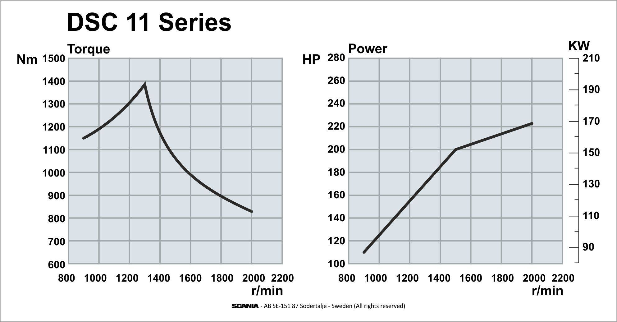 Protocolo y Curva de potencia Motores